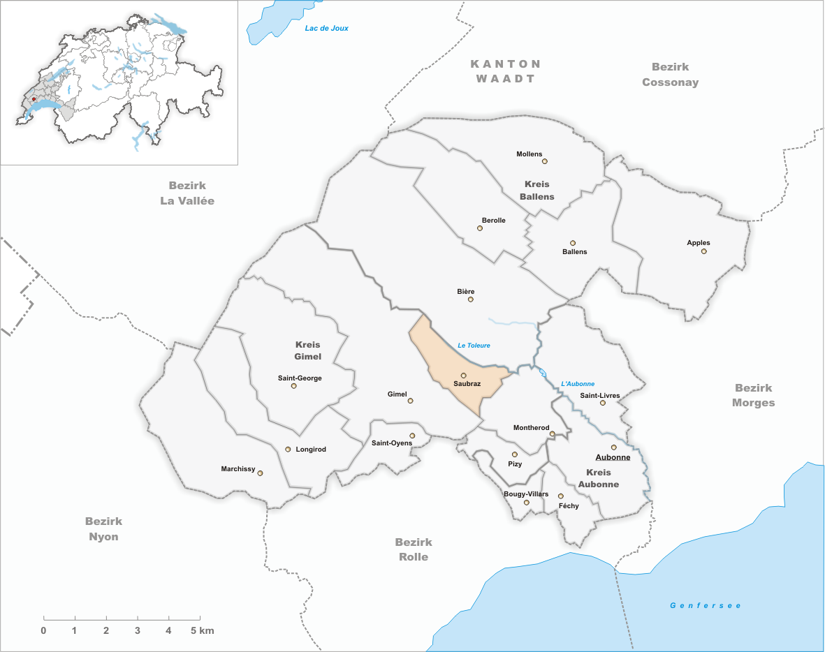 Municipality Saubraz